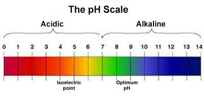 pH scale showing the BBE-like enzymes' optimum pH, and their isoelectric point.